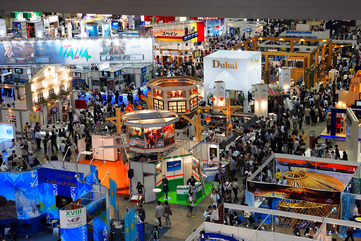 JATA World Tourism Congress & World Travel Fair 2008, Toyko, Japan